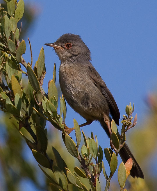 female Dartford Warbler in Macchia of Andalusia, Spain